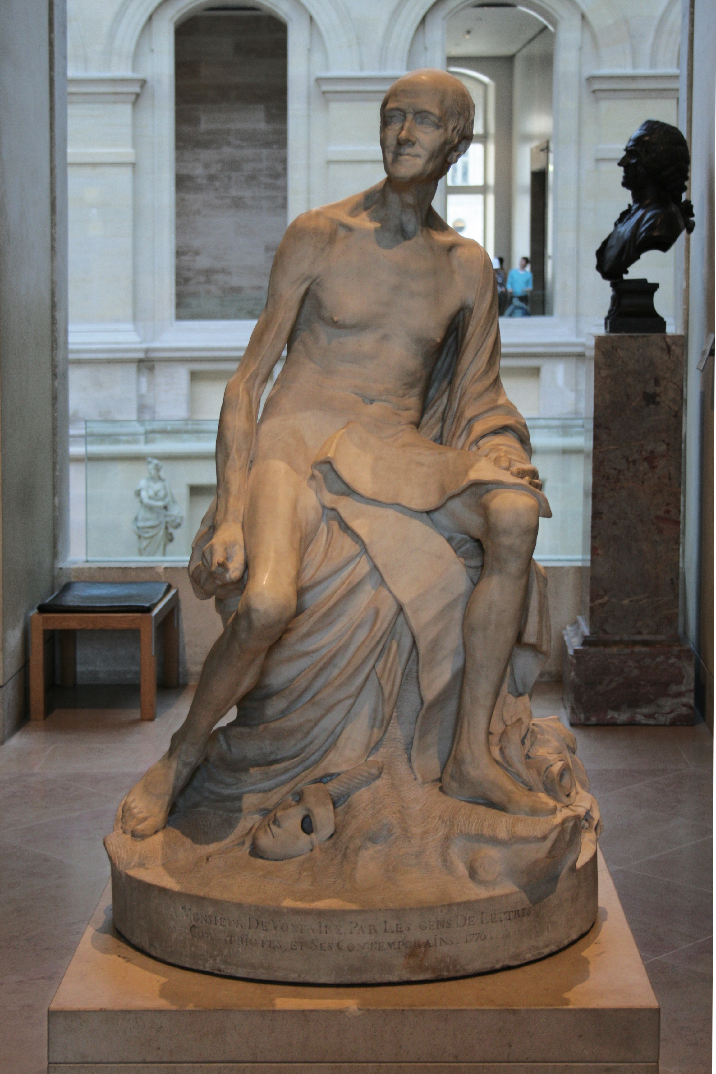 Front view.